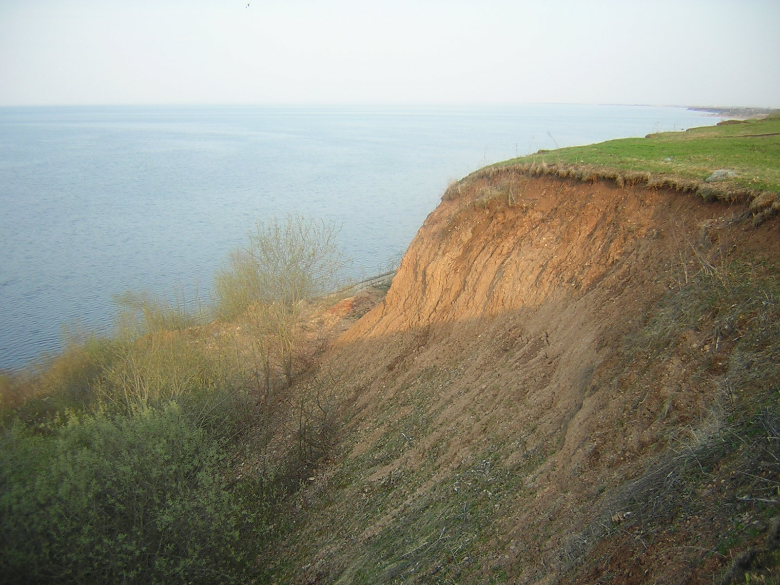 South coast of Ilmen lake Novgorod oblast Russia